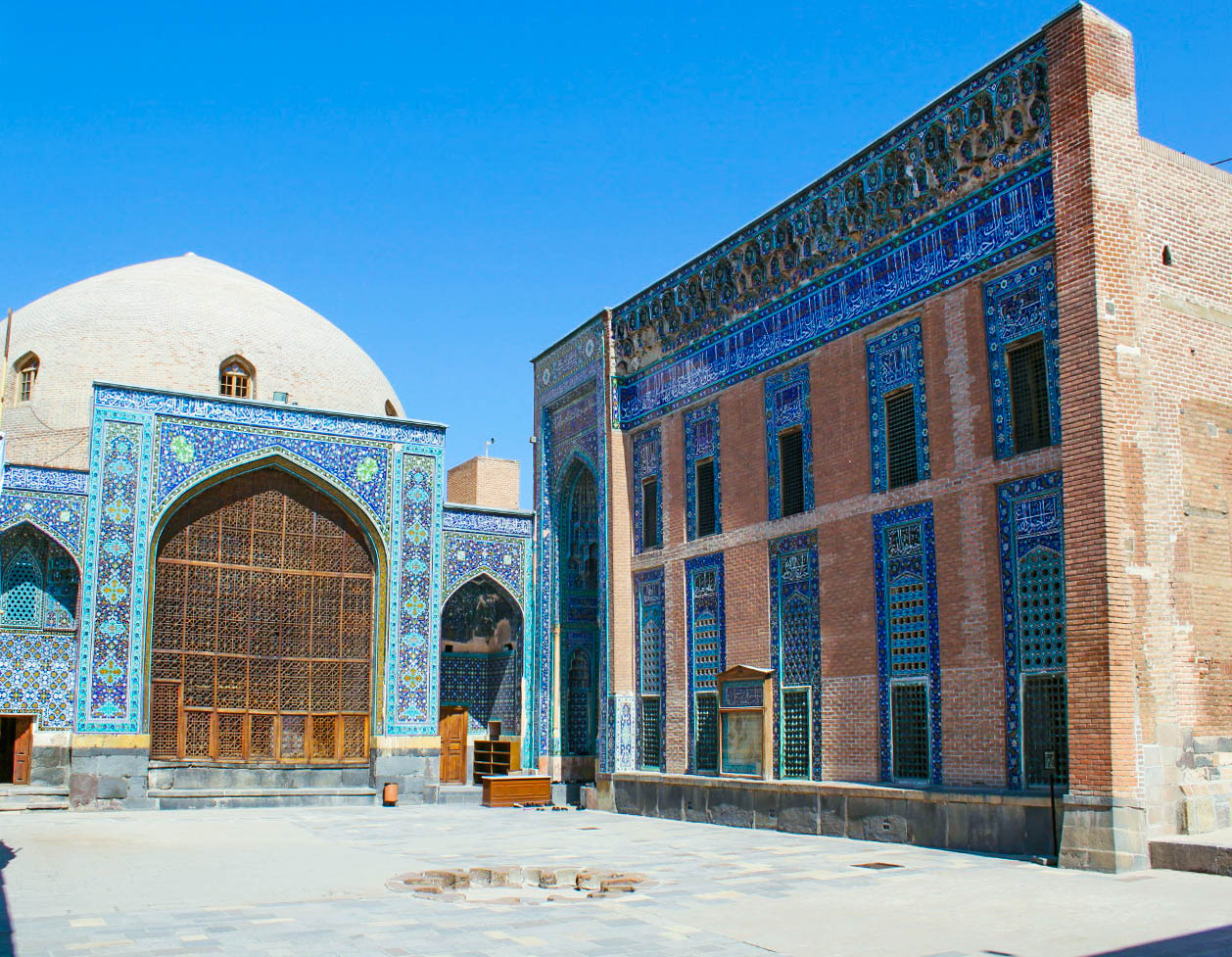 Sheikh safi al-din ardabili's shrine